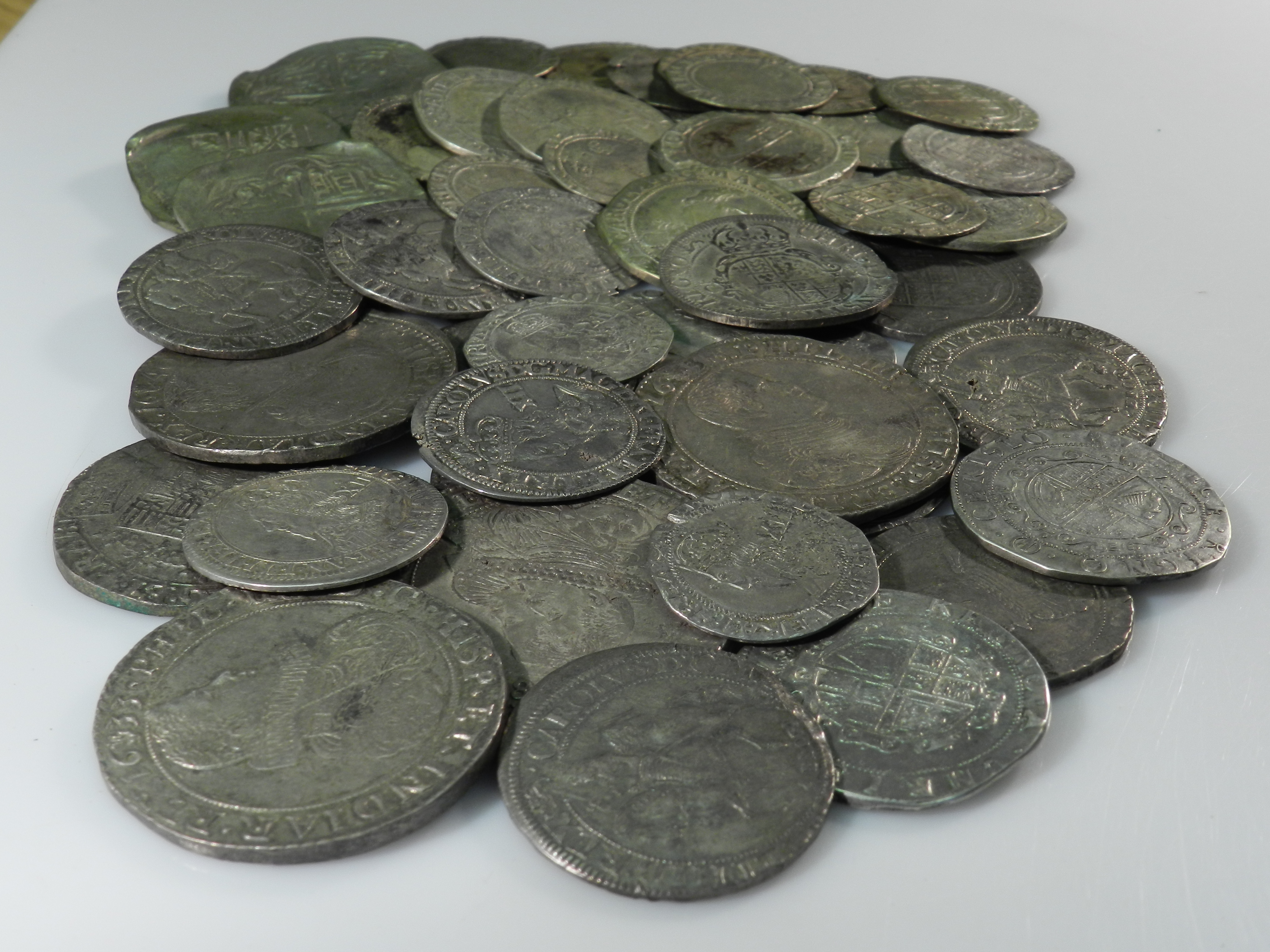 Selection of the 54 coins of the Middleham Hoard in the Yorkshire Museum numismatic collection.